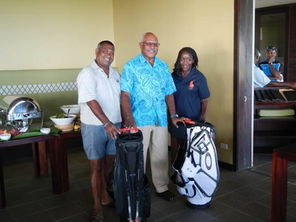 Ambassador Reed participated in the 2nd Ambassador's Day Golf Tournament and won! Here's some of the action from the tournament.